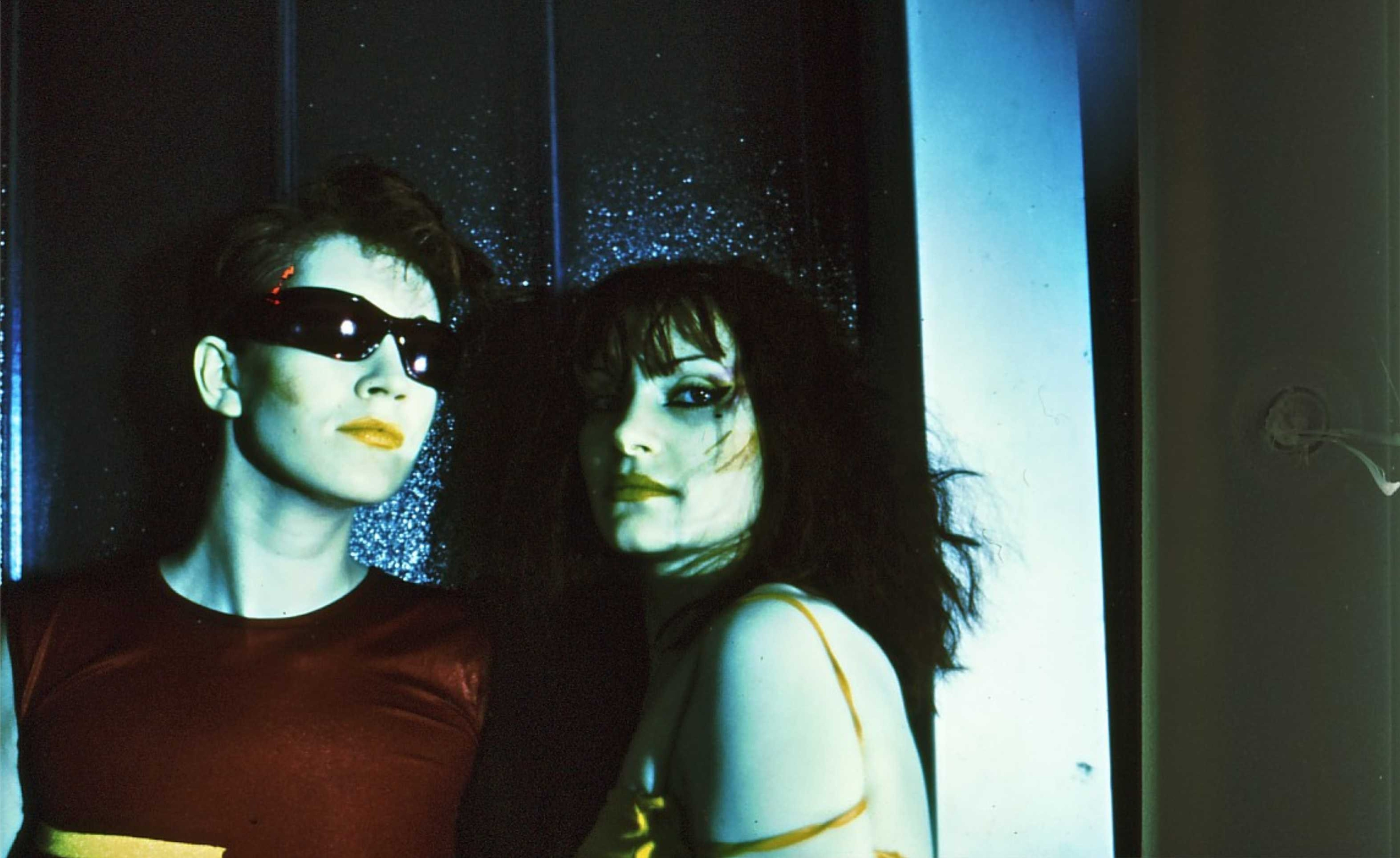 experiment band pic with false color photography Bettina Köster, Karin Luner